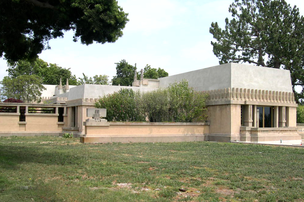 Frank Lloyd Wright's Hollyhock House, Los Angeles, CA